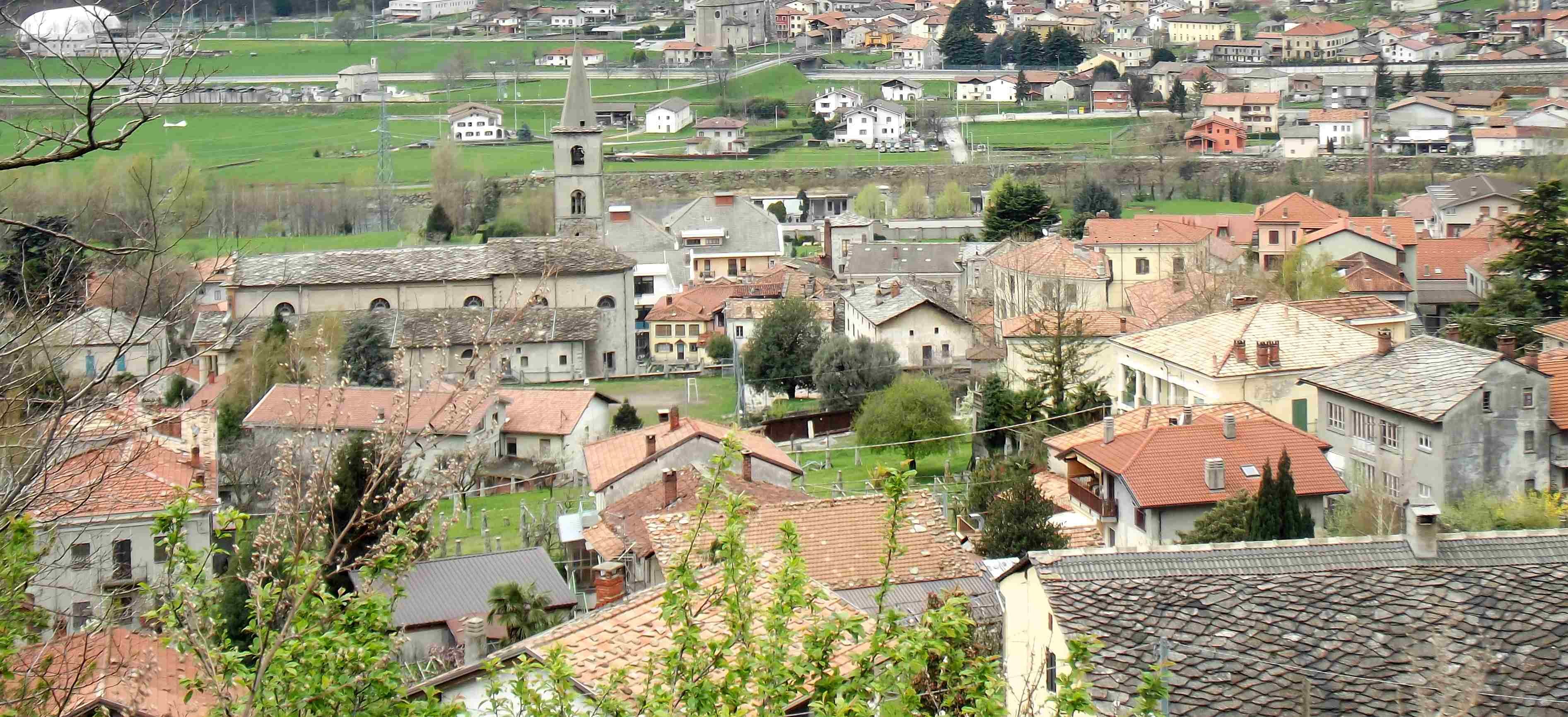 Settimo Vittone (TO, Italy) from the pieve di San Lorenzo